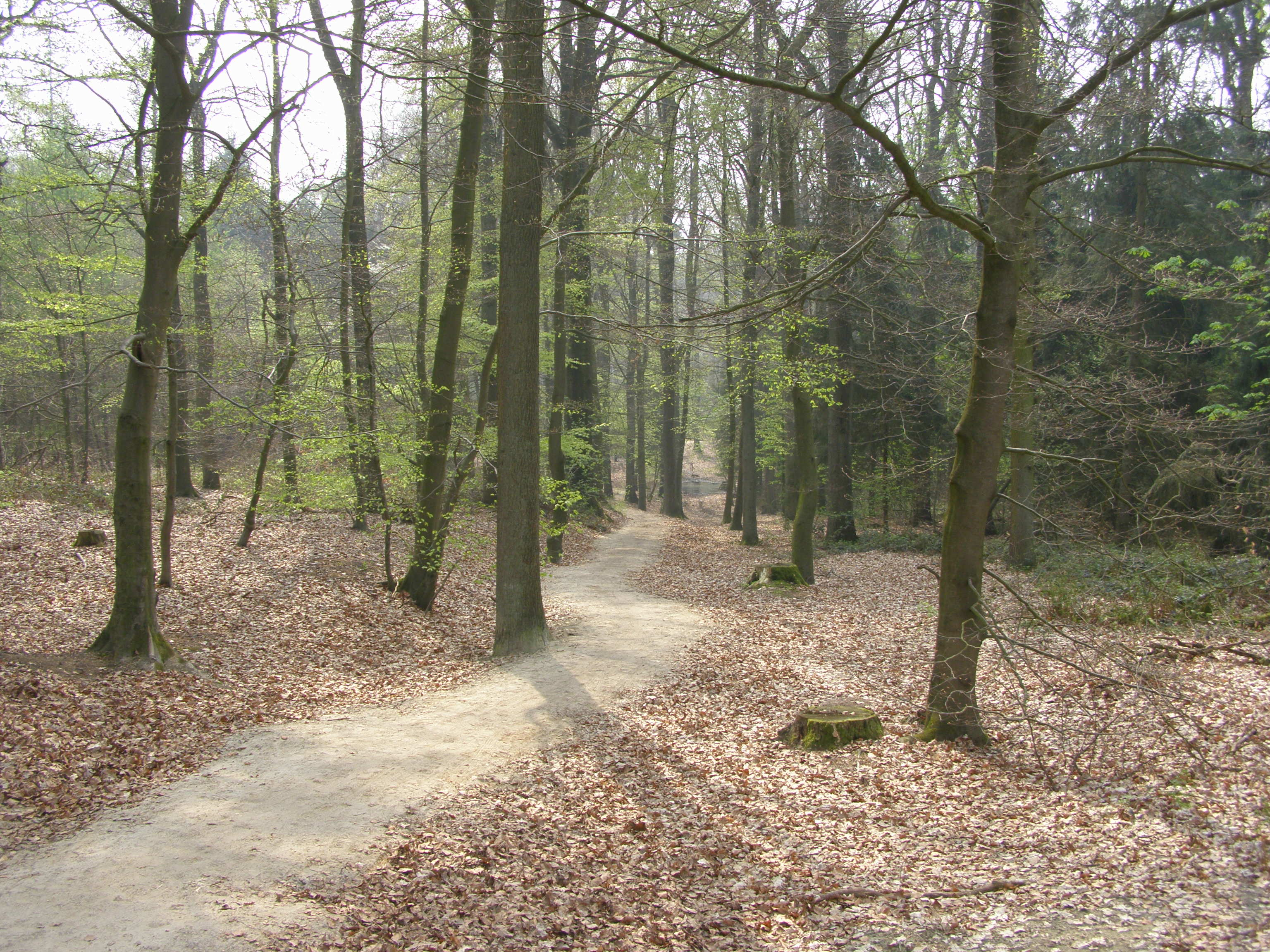 Landscape on the Paasberg (Overijssel)